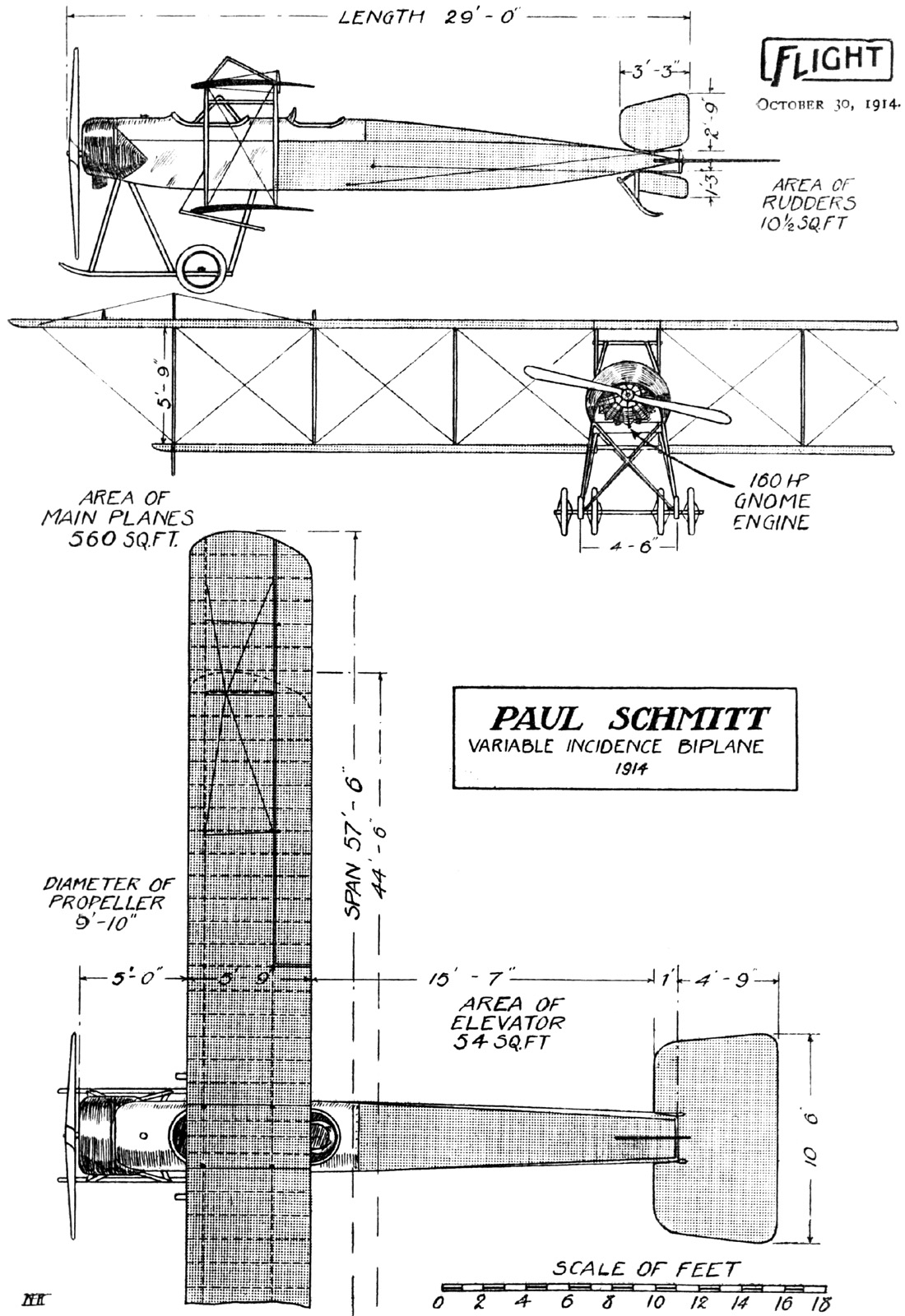 Paul Schmitt P.S.3 1914 biplane 3-view drawing